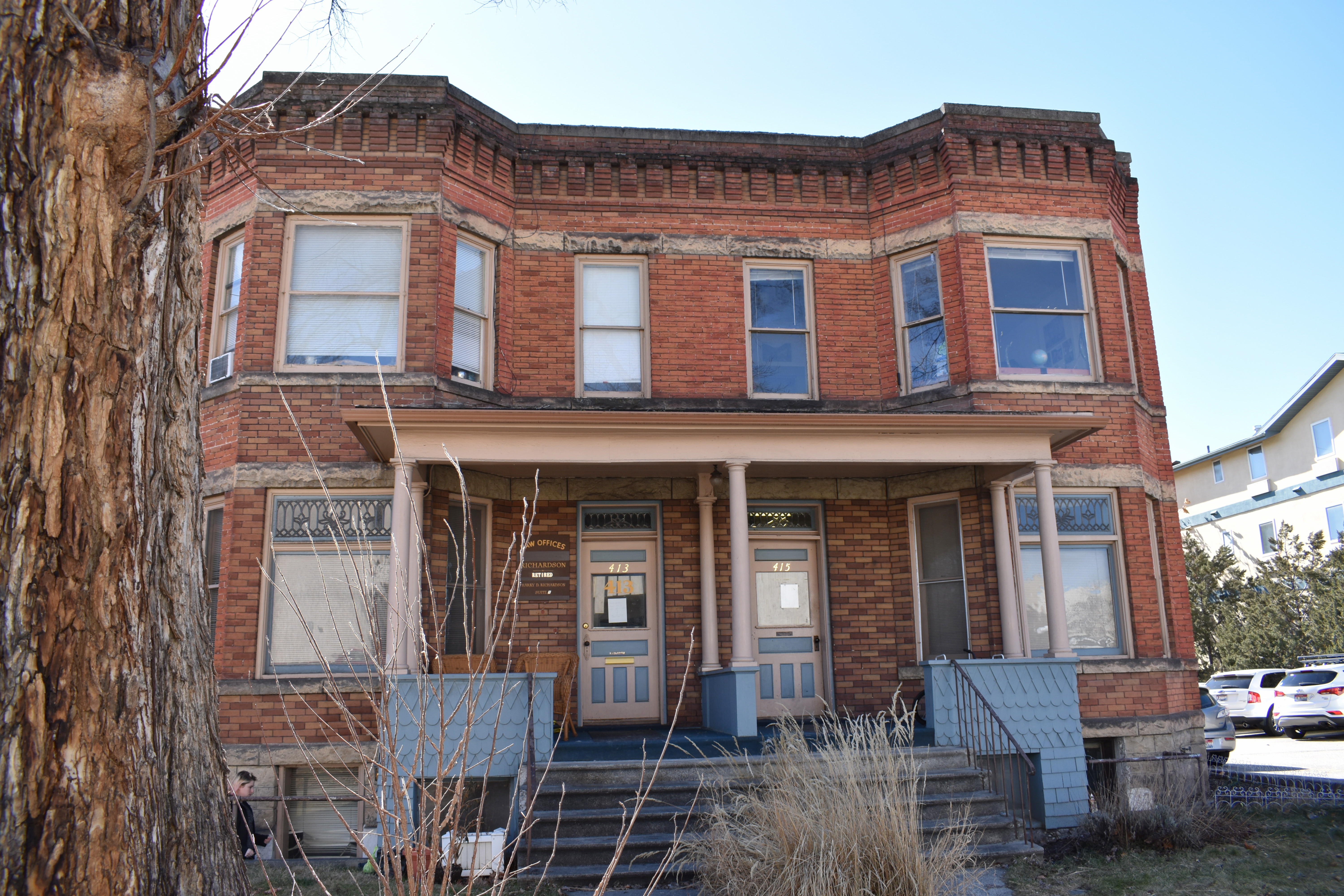 The Kieldson Double House (1903) was designed by Tourtellotte & Co. and is listed on the National Register of Historic Places.